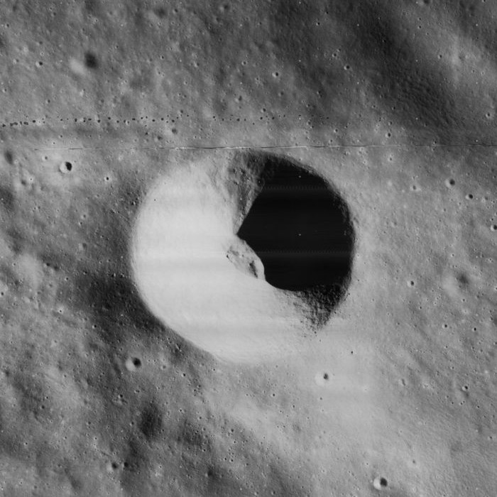 Theon Senior C crater, west of Theon Senior, on the moon. Row of dots above crater is blemish on original.